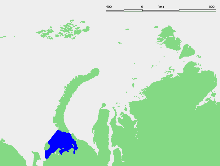 Pechora sea